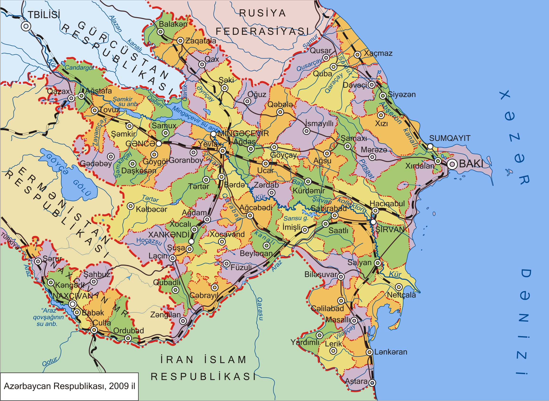 Map of Azerbaijan Republic with changes until 2009/01/01